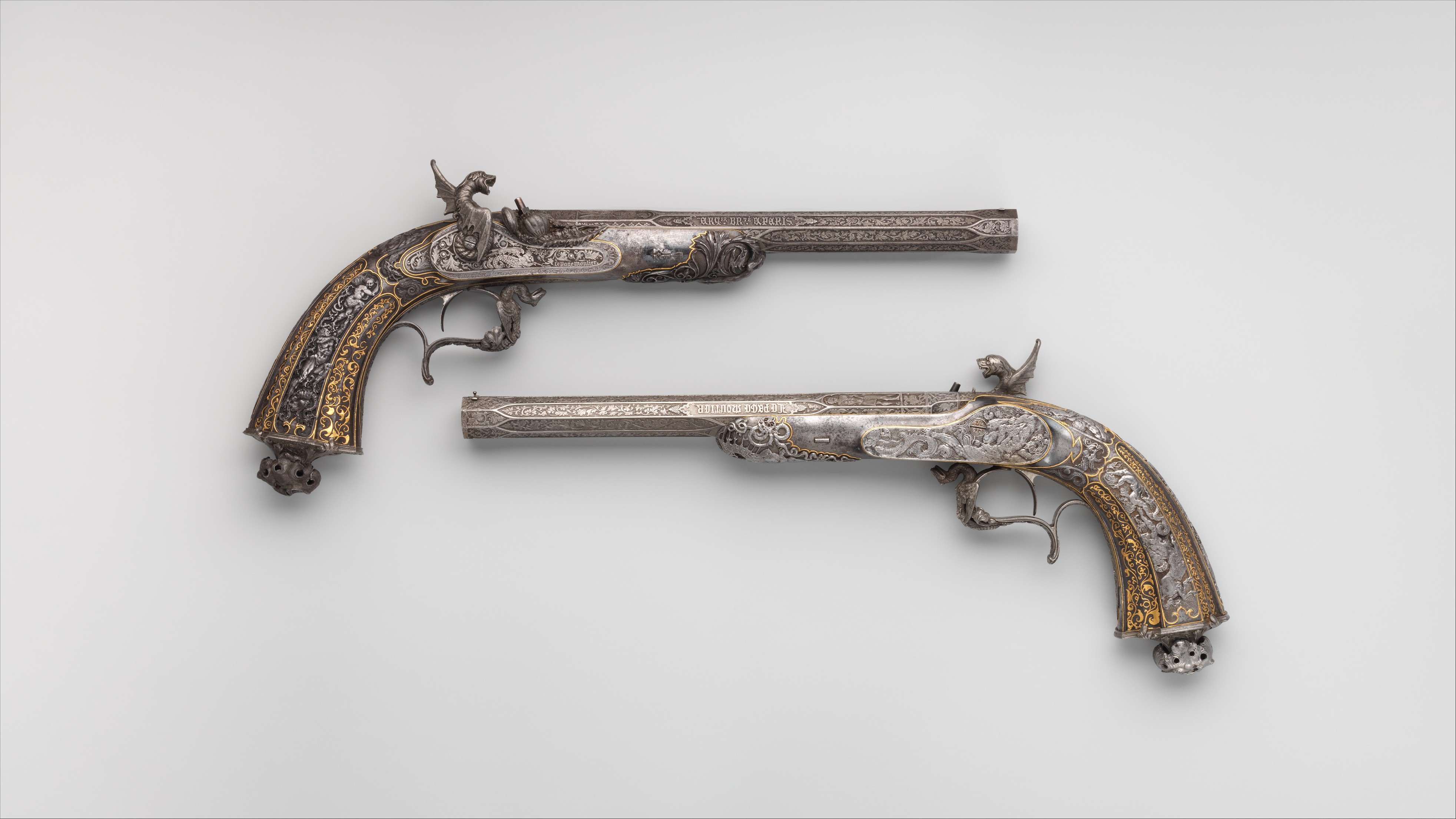 French; Two percussion target pistols; Firearms-Pistols-Percussion